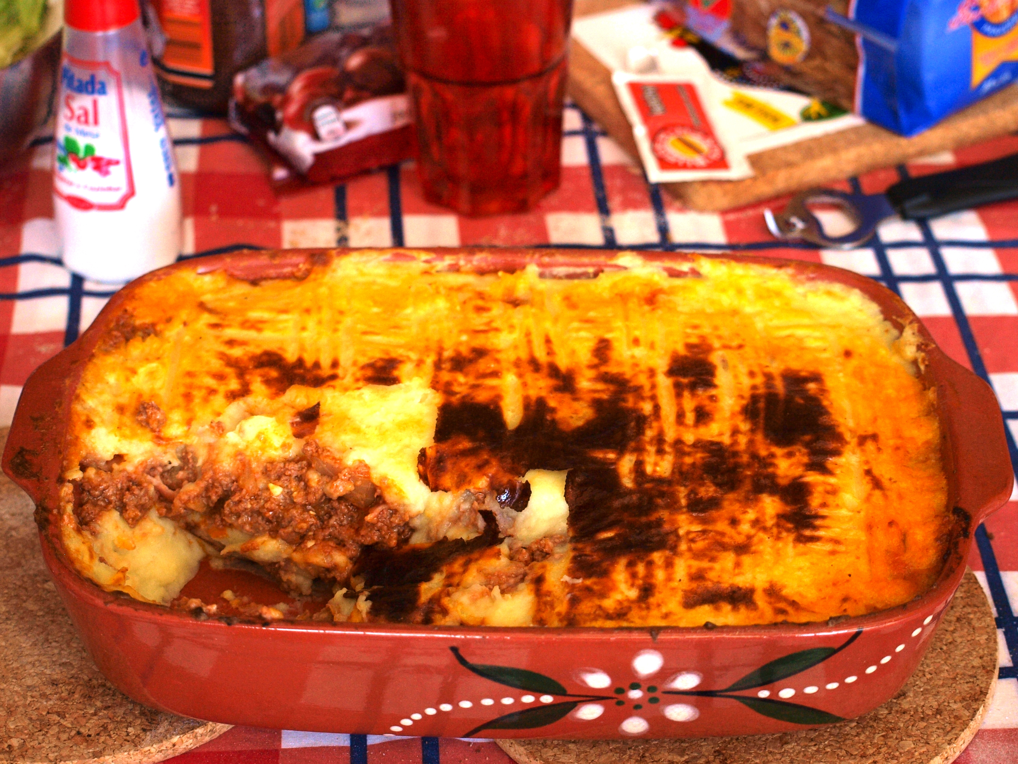 Empadão, a portuguese minced meat and mashed potatoes dish.